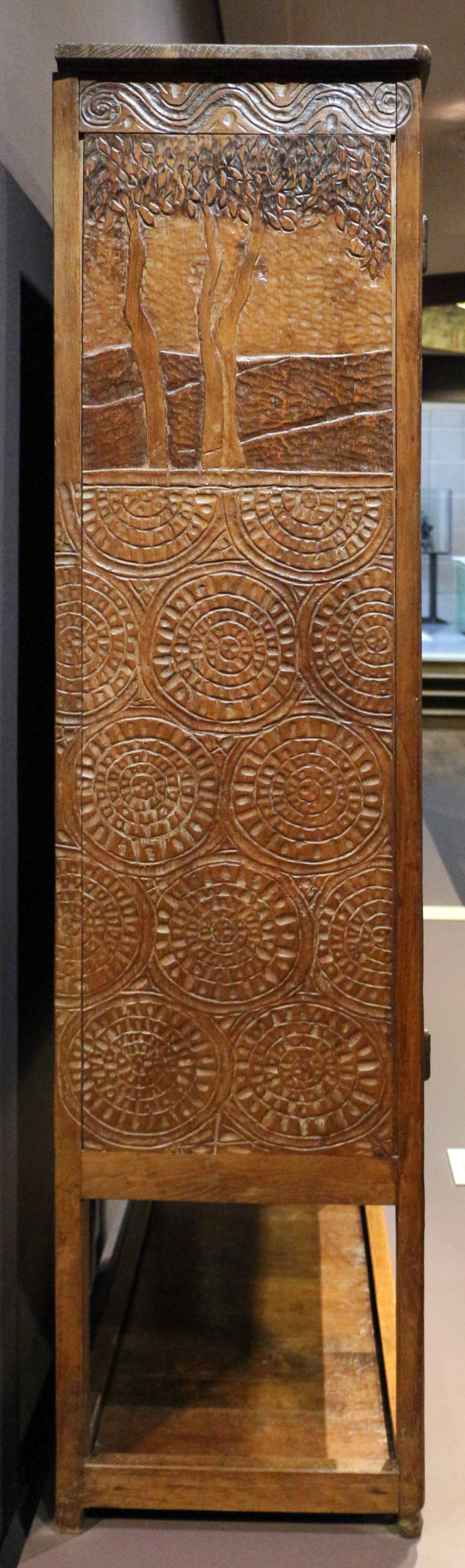 Decorative arts in the Musée d'Orsay